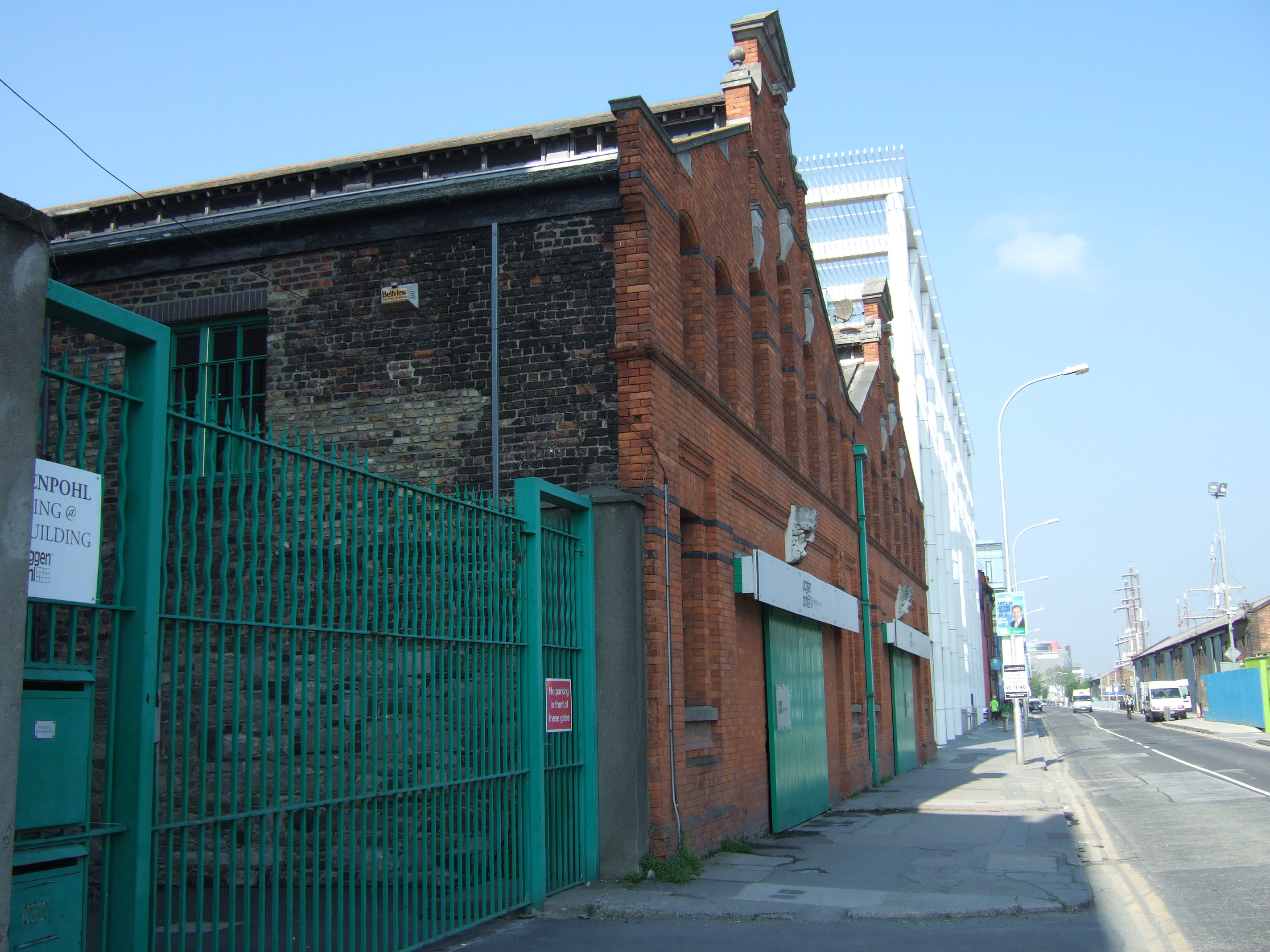 Principle Management of the Band U2 in Dublin